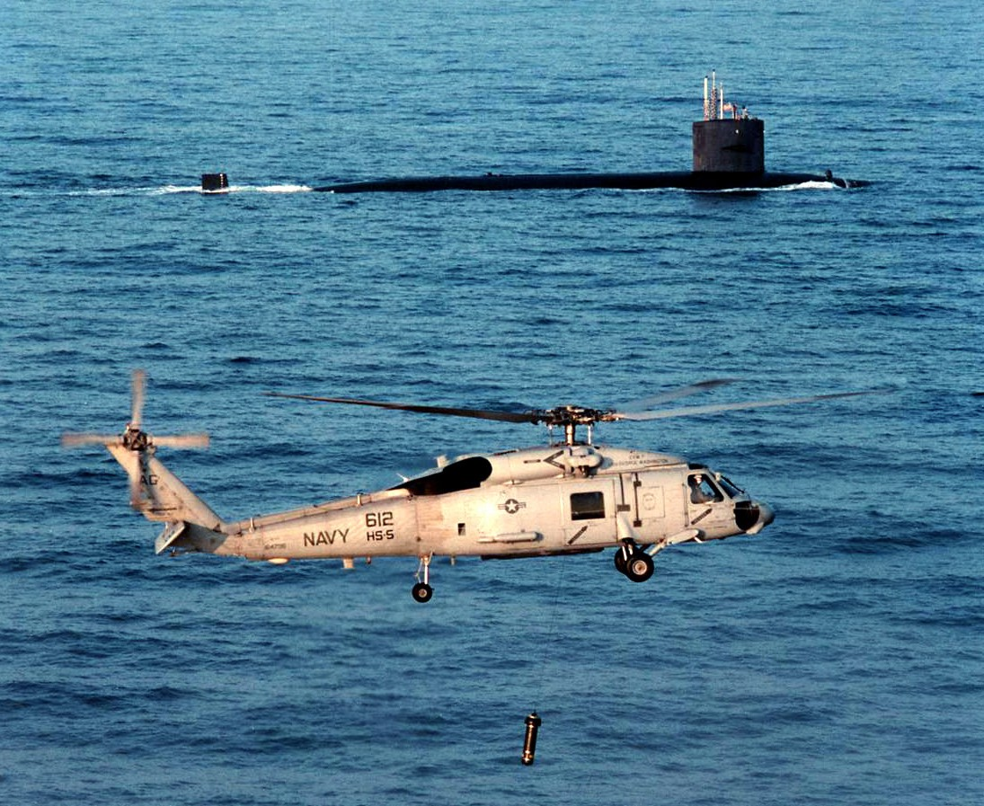 A U.S. Navy Sikorsky SH-60F Seahawk of helicopter anti-submarine squadron HS-5 Nightdippers hovers in front of the Sturgeon-class attack submarine USS Grayling (SSN-646) while operating in the western Mediterranean Sea on 19 June 1996. The Seahawk was assigned to Carrier Air Wing Seven (CVW-7) operating from the aircraft carrier USS George Washington (CVN-73), while conducting a passing exercise with units from the French aircraft carrier Clemenceau (R98).